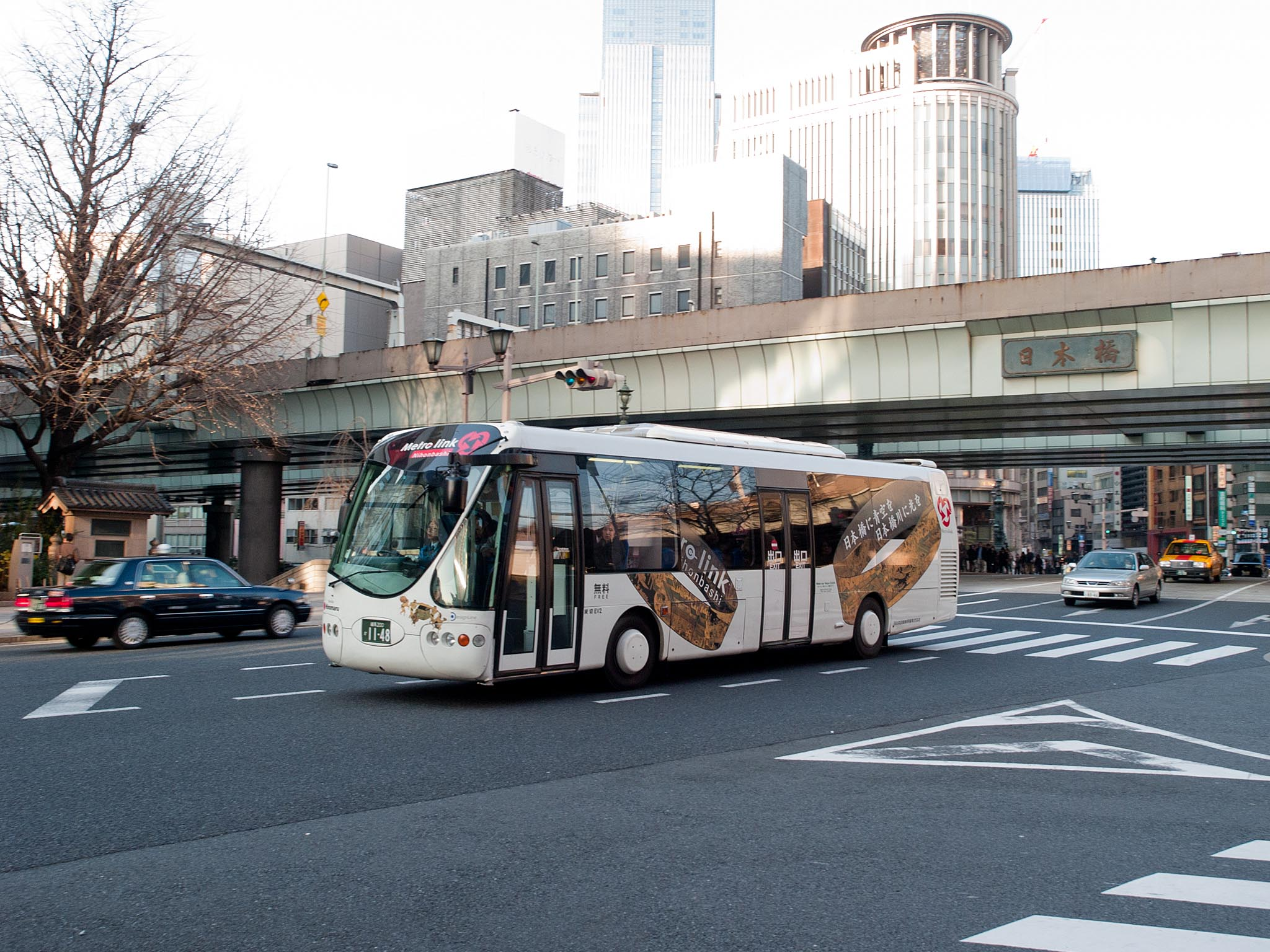 Fleet of Hinomaru Sightseeing Car, Designline Olymbus for Metro Link Nihonbashi. License plate: TKN200 KA1148 Place: neighbour of Nihonbashi bridge, Chuo ward, Tokyo Japan